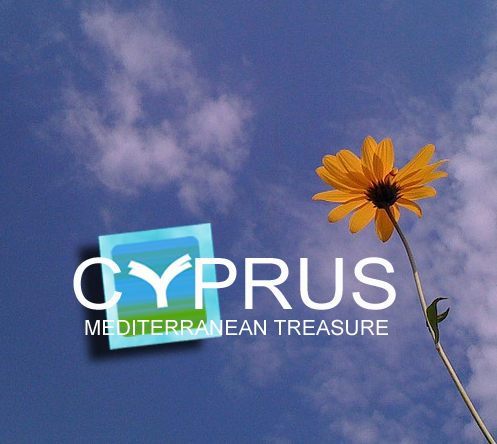 Destination Marketing Brand Cyprus for Cyprus Tourism. Online PR and advocacy services for Cyprus Tourism